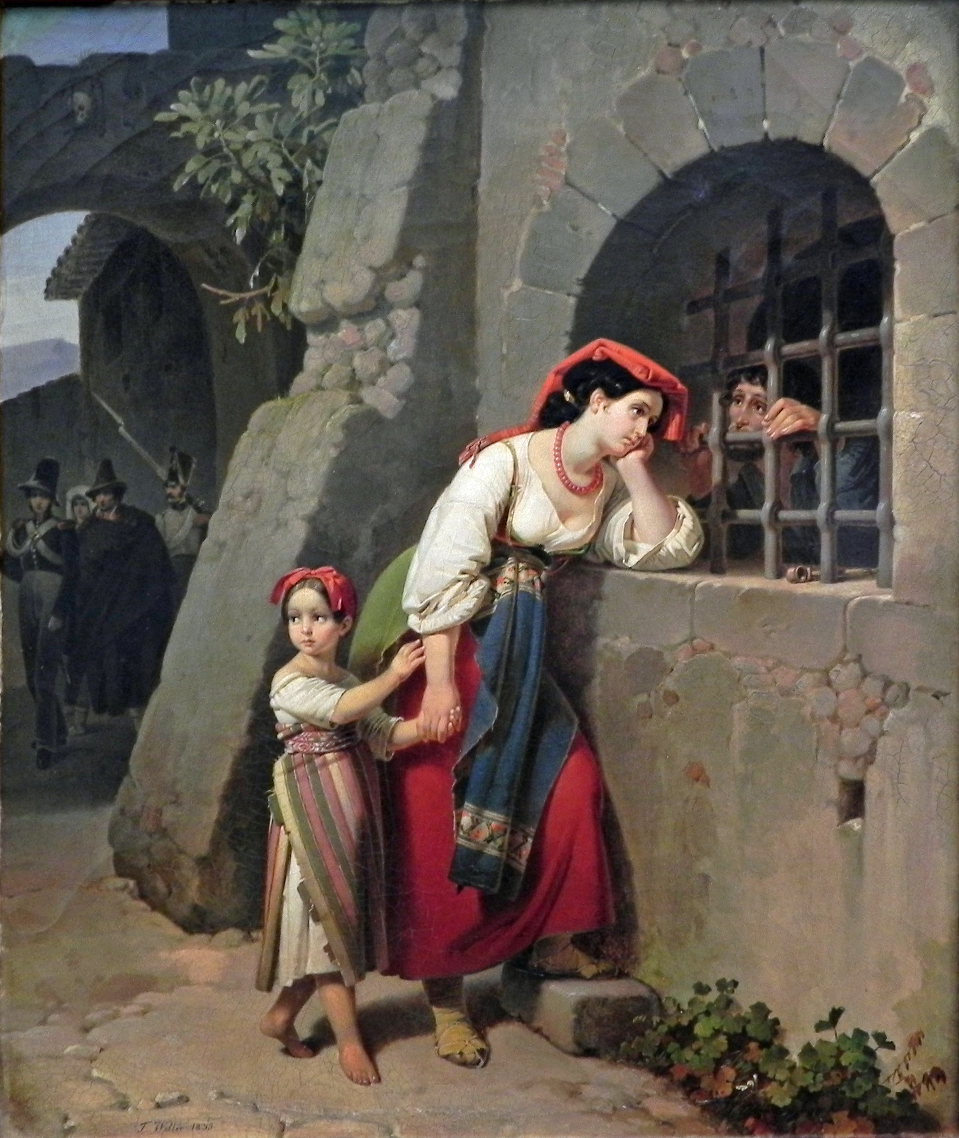 Visit to the Prisonlabel QS:Len,"Visit to the Prison"label QS:Lde,"Besuch im Gefängnis"